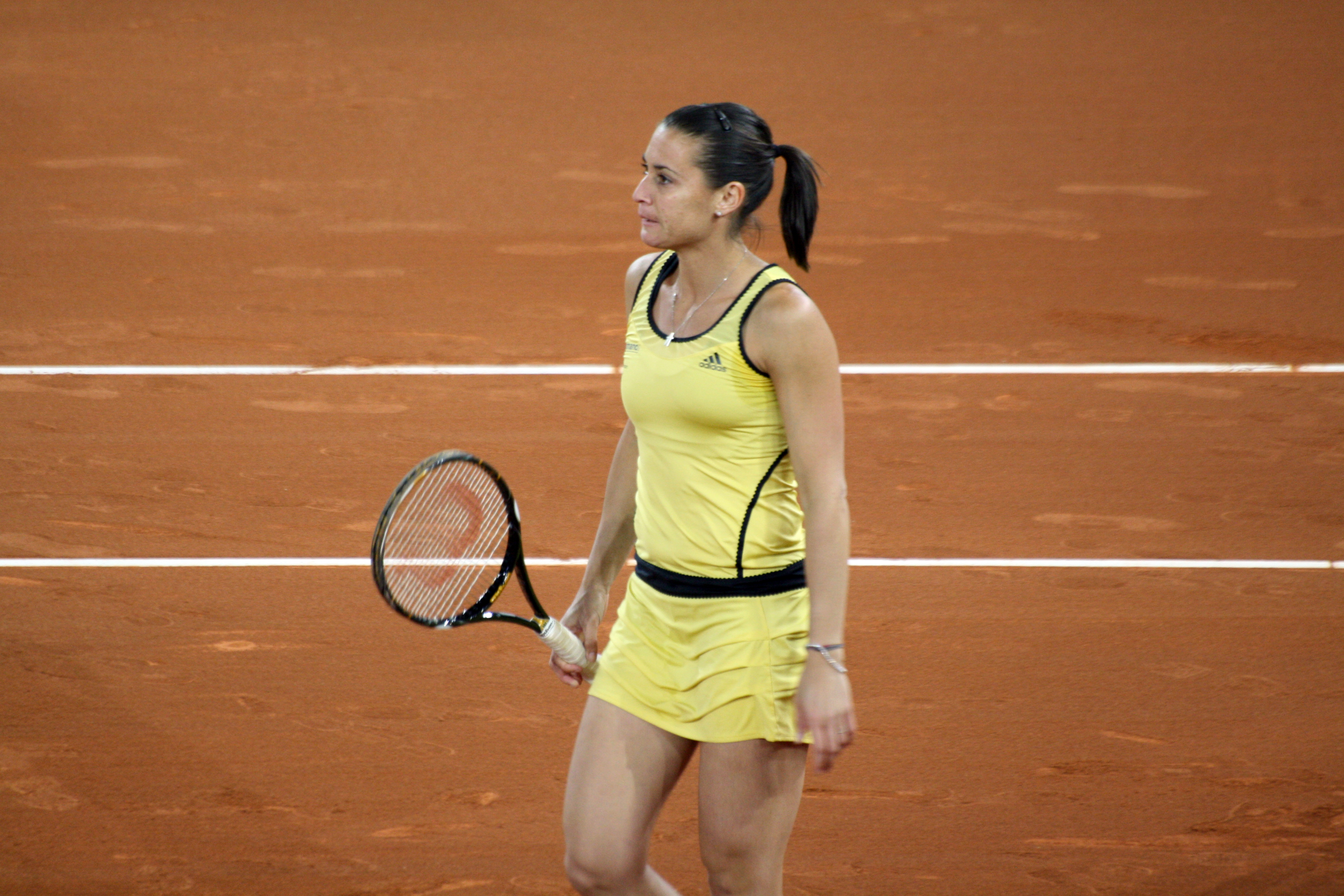 Flavia Pennetta playing the 2010 Mutua Madrileña Madrid Open doubles female final